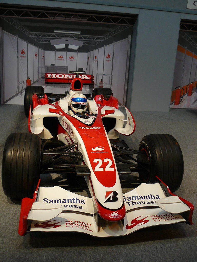 Super Aguri F1 '08. Slow shutter speed obviously, no need to rush with this one ;)